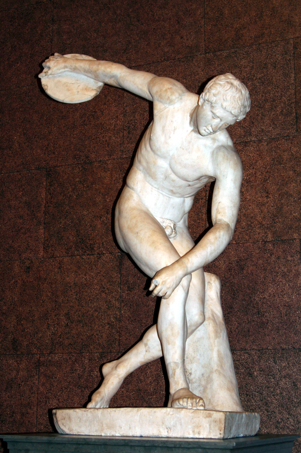 Photos taken in the Roman Gallery - British Museum